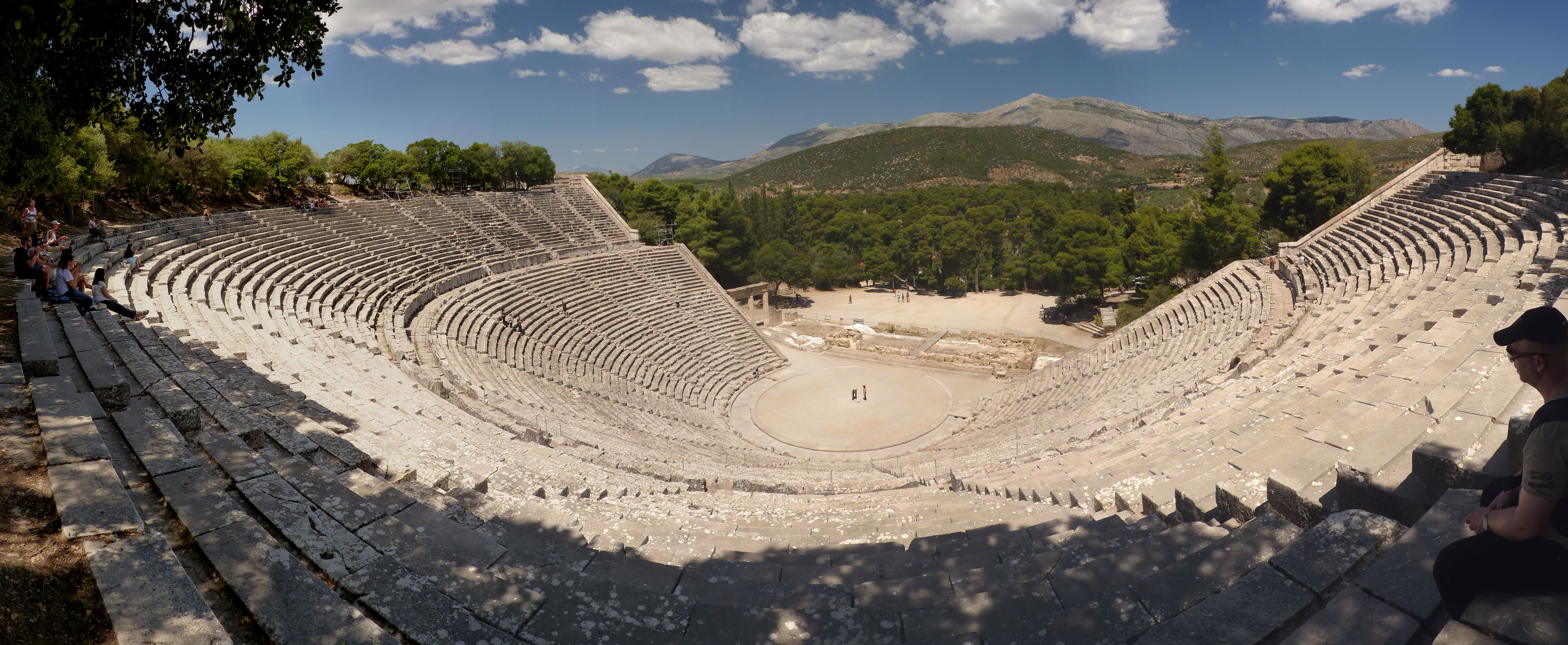 Epidaurus (Greek: Επίδαυρος, Epidavros) was a small city (polis) in ancient Greece, at the Saronic Gulf. You can use the images for free. But a link to - I would be happy :)